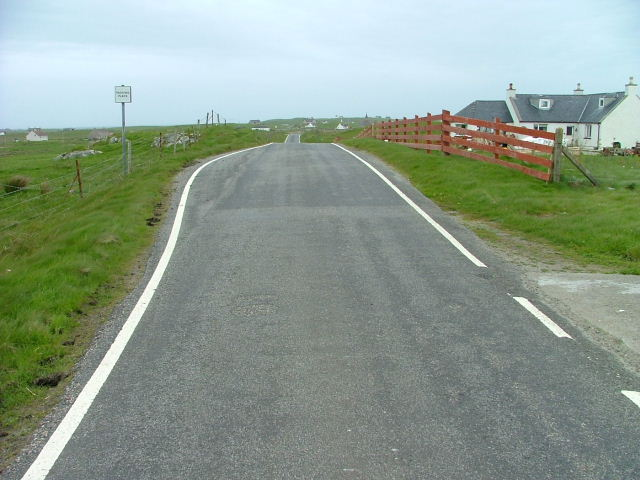 A865 Road through Balranald. Looking northwest.